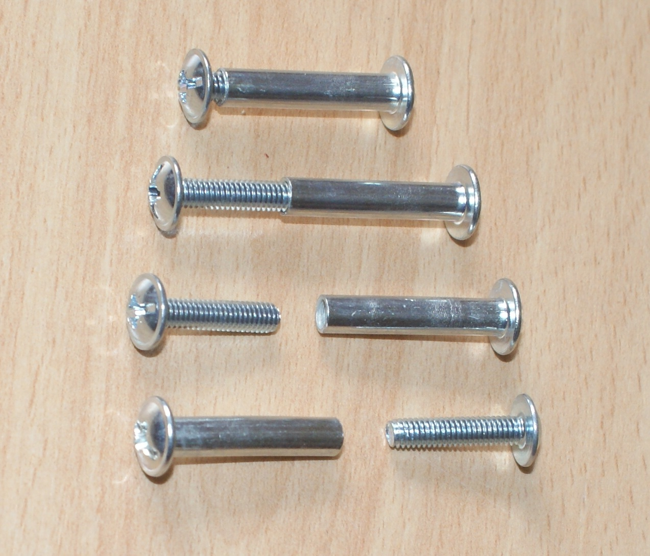 Sleeve nuts with screws